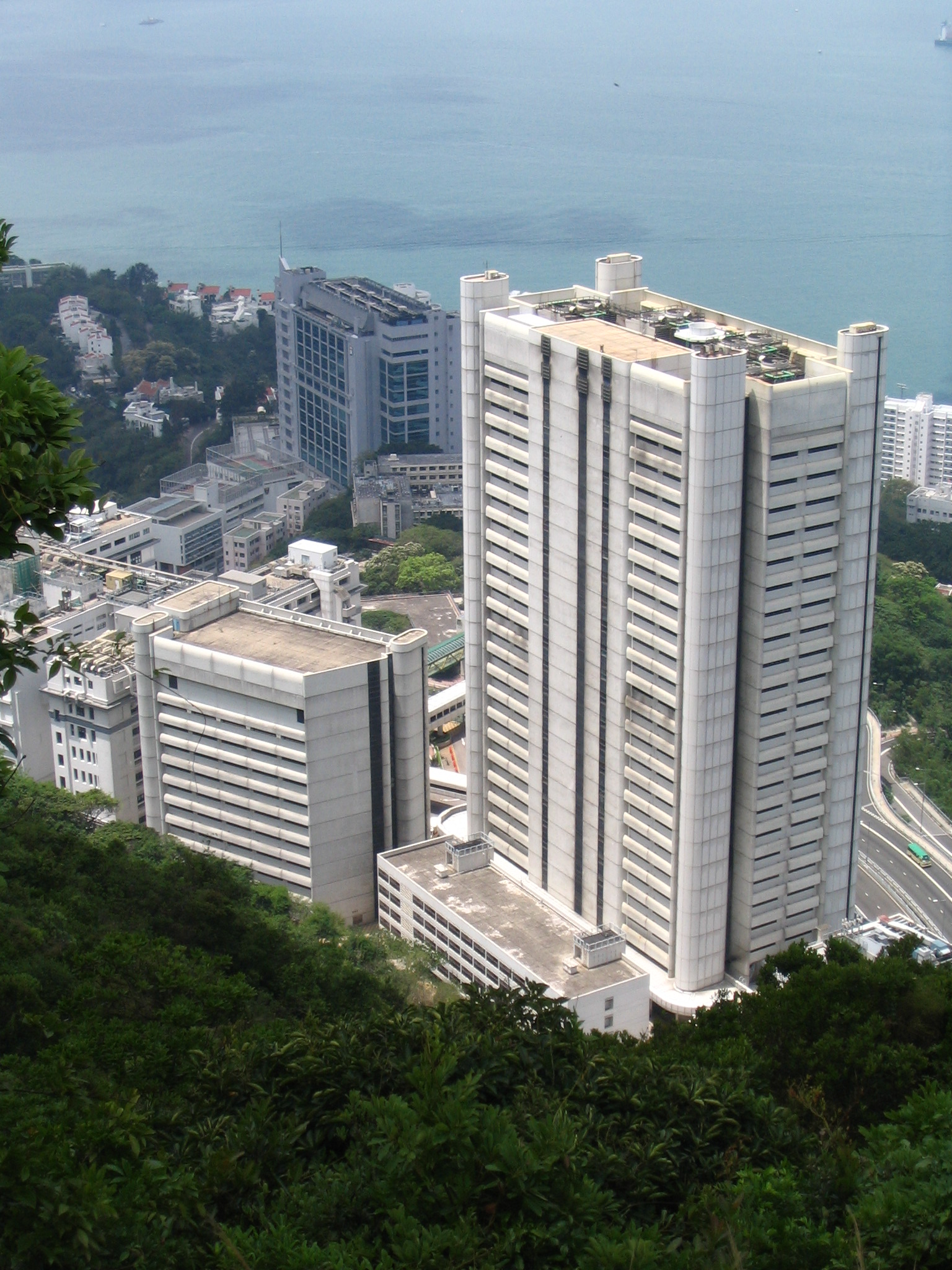 Photo of Queen Mary Hospital